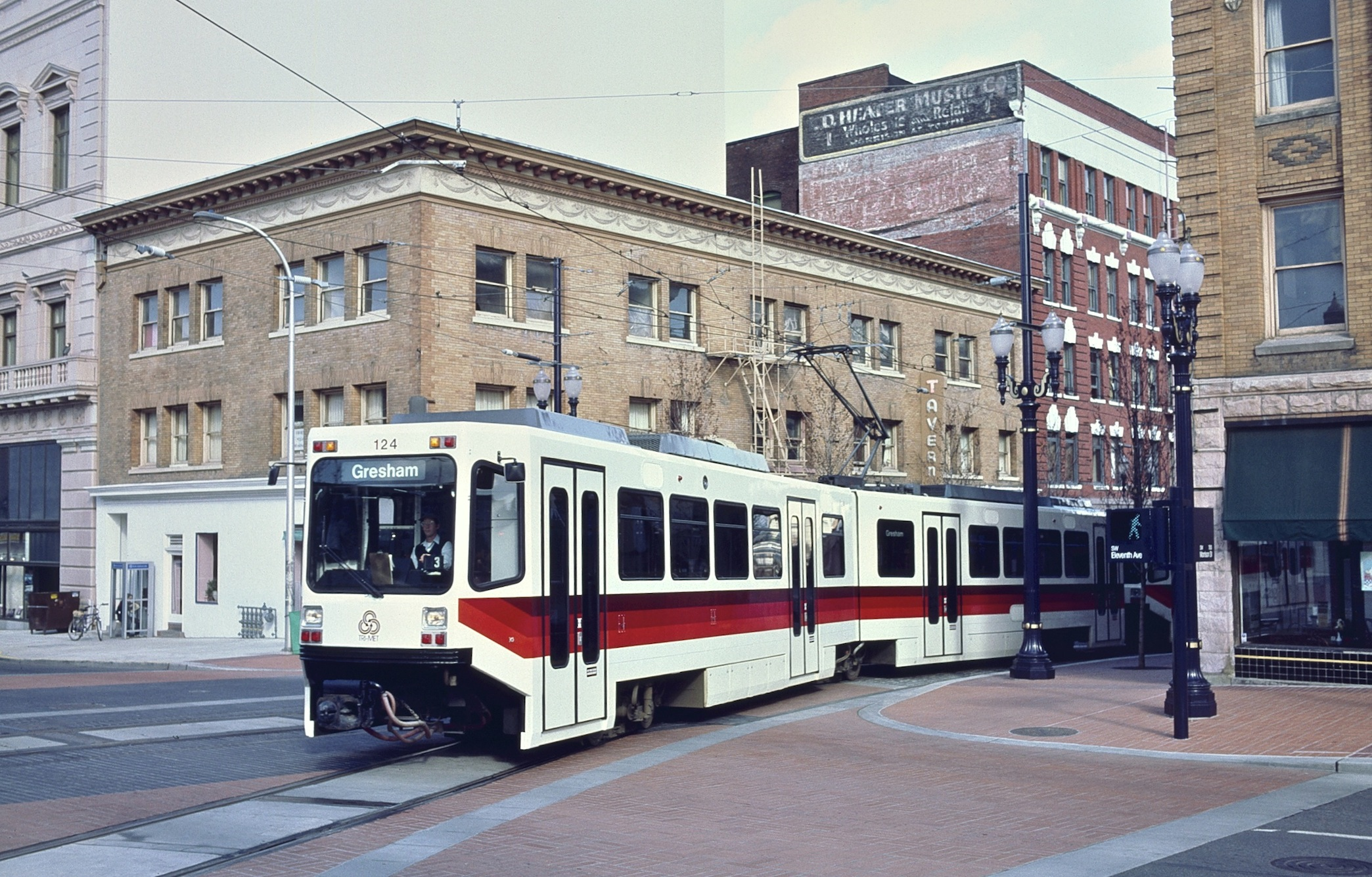 TriMet LRV (light rail vehicle) 124 westbound on SW Morrison Street at 11th Avenue in downtown Portland (Oregon), starting to turn into the 11th Avenue turnaround loop, which was the westernmost point on the MAX system until 1997 (the track at left was also leading into the loop). It is completing a trip from Gresham, but the operator has already changed the destination sign for the next trip, back out to Gresham. Car 124 was built in 1985 by Bombardier and entered service with the opening of the MAX system, in 1986. Until 1996, this was the only type of LRV in TriMet's fleet, and this group was designated "Type 1" after TriMet acquired a second, different type in the 1990s.